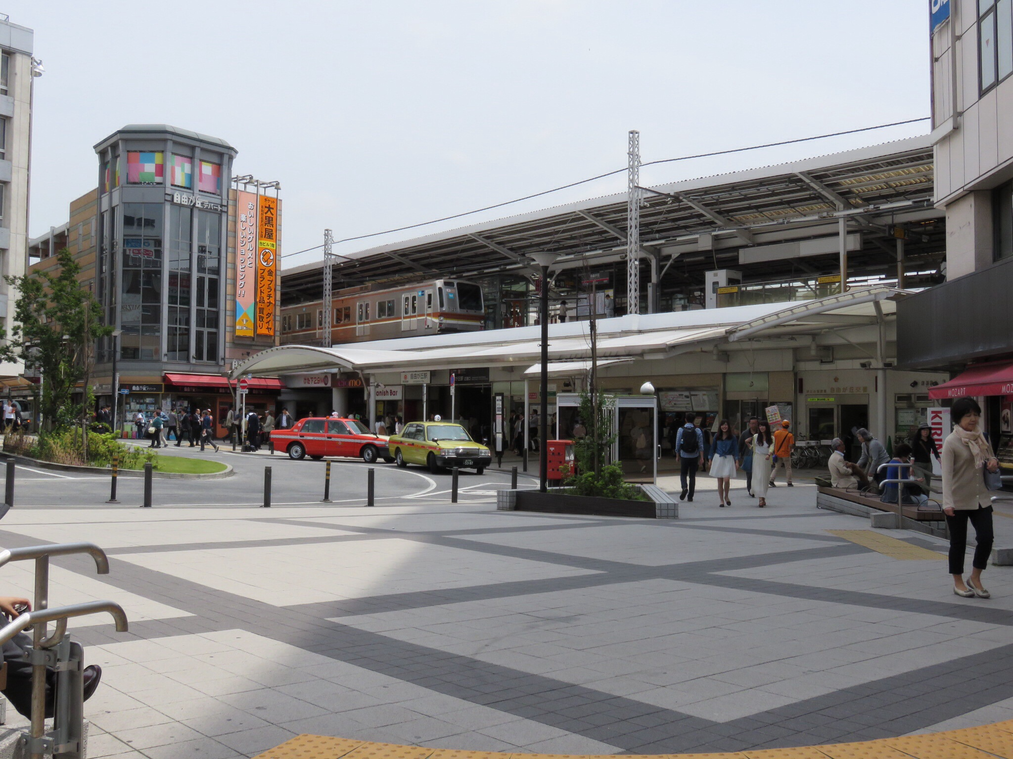 Jiyugaoka Station, Meguro